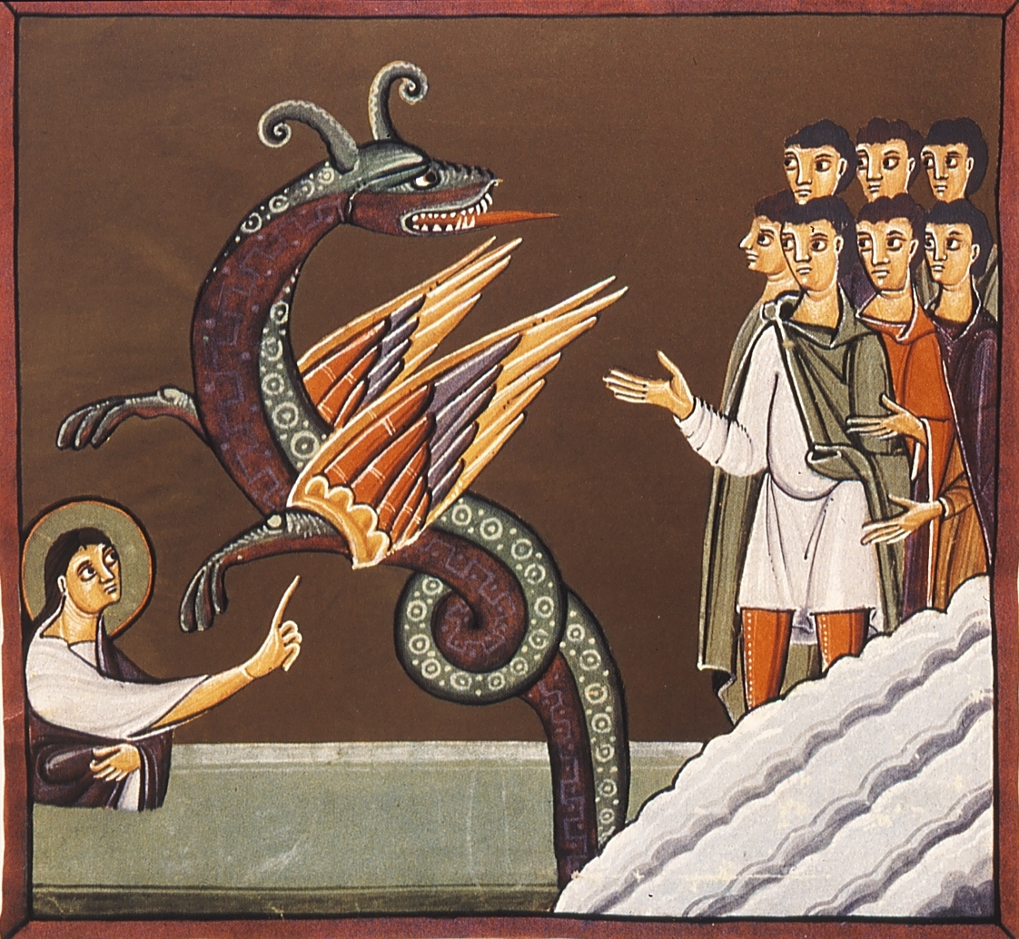 The horned beast